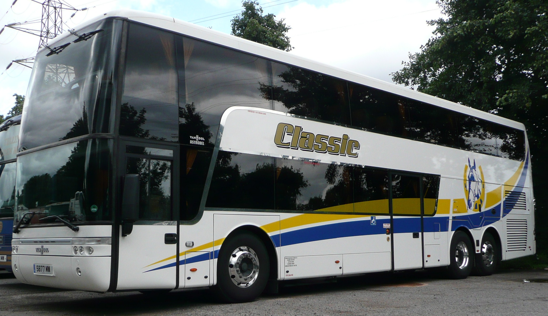 Tellings-Golden Miller's Classic Coaches division's 5877 MW, a Van Hool T9 Astrobel coach with Volvo B12BT 6x2 chassis, parked at the Wiltax depot in New Haw, Surrey (Wiltax were owned by TGM at the time).